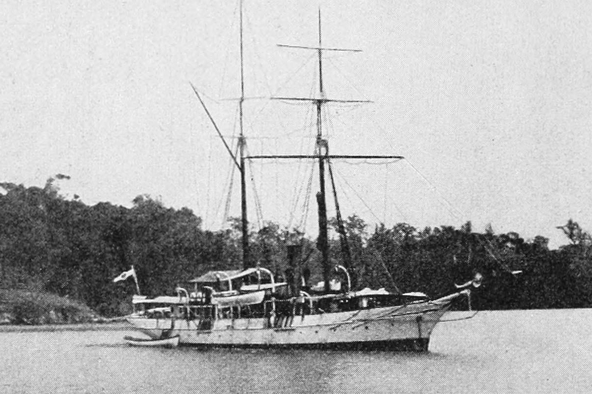 “Government steamer Delphin for the traffic in the Marshall Islands, Caroline Islands and Mariana Islands” (original description).